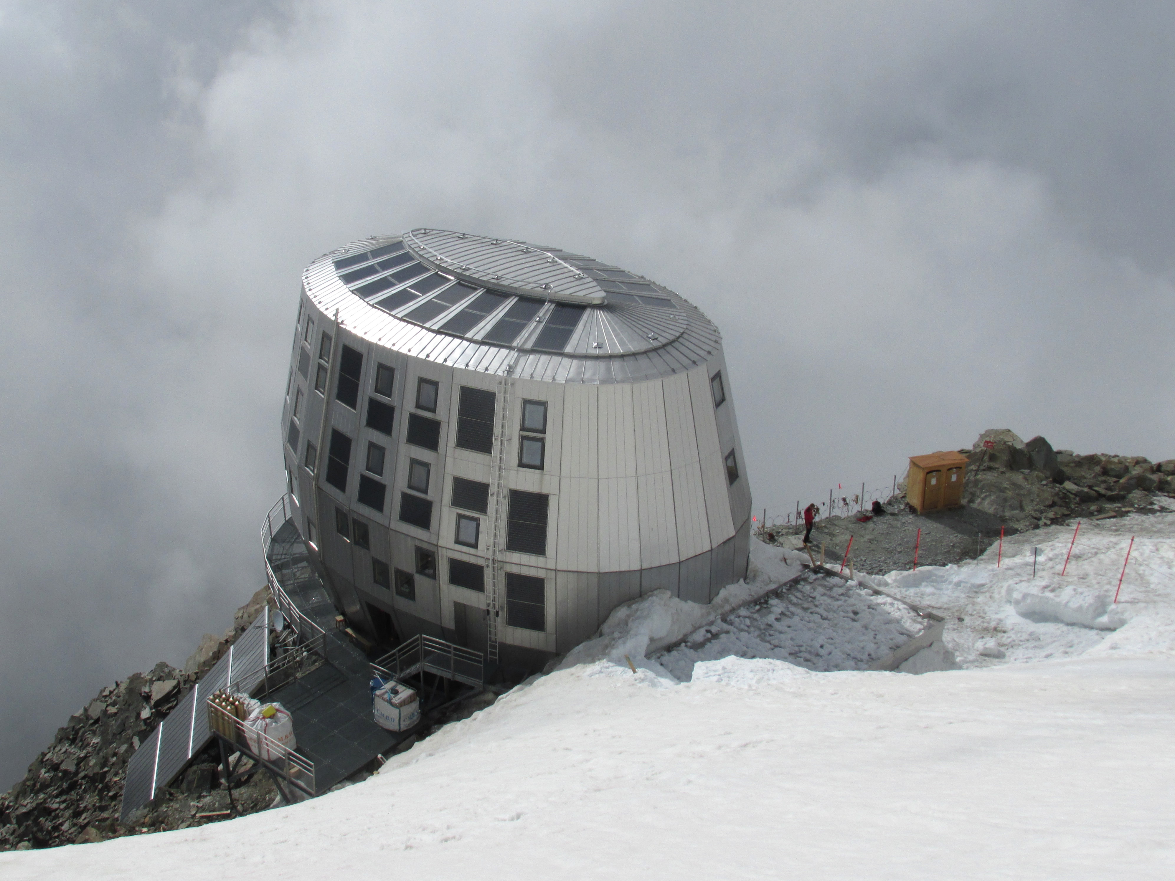 The new Refuge du Goûter